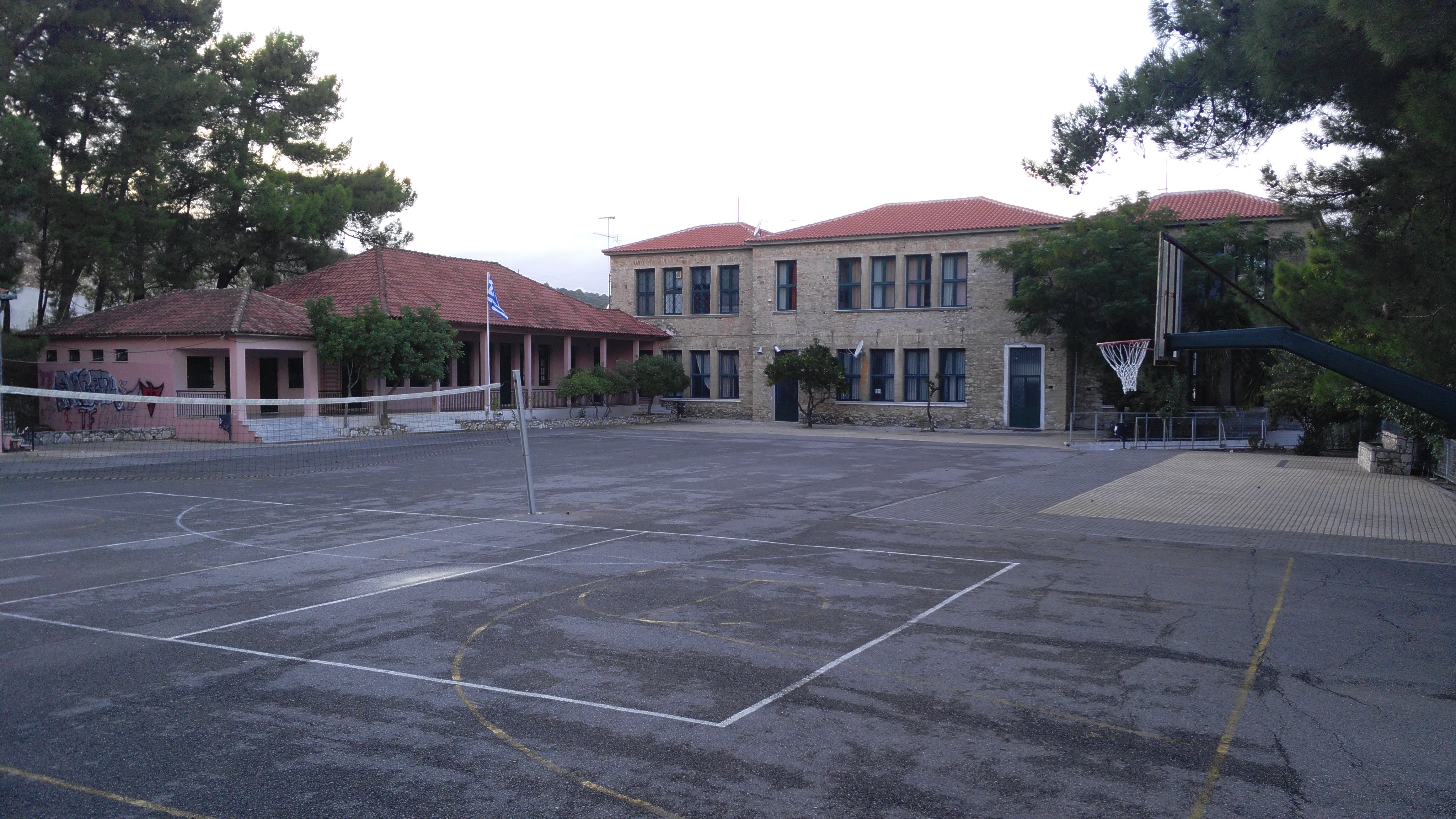 The building of the High School of Petalidi. On the first floor is the Junior High School (Γυμνάσιο), while on the second floor is the High School (Λύκειο). The school was built around 1930 and the trees that surround it were planted by its students in the 50s.